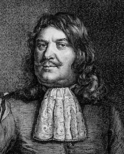 Michael Mathias Smids (1626–1692)